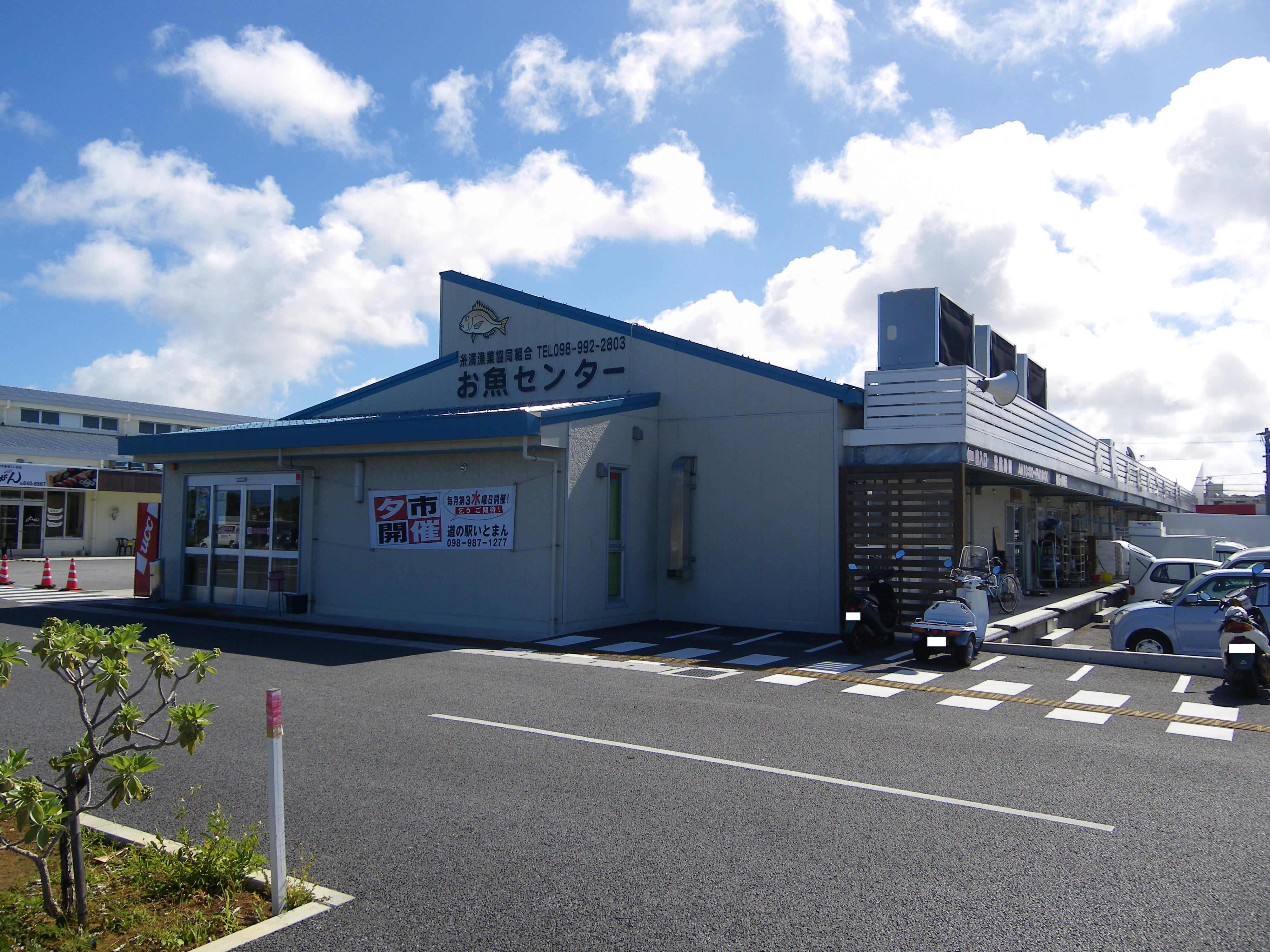 Osakana Center (Fish Store), Itoman, Okinawa.